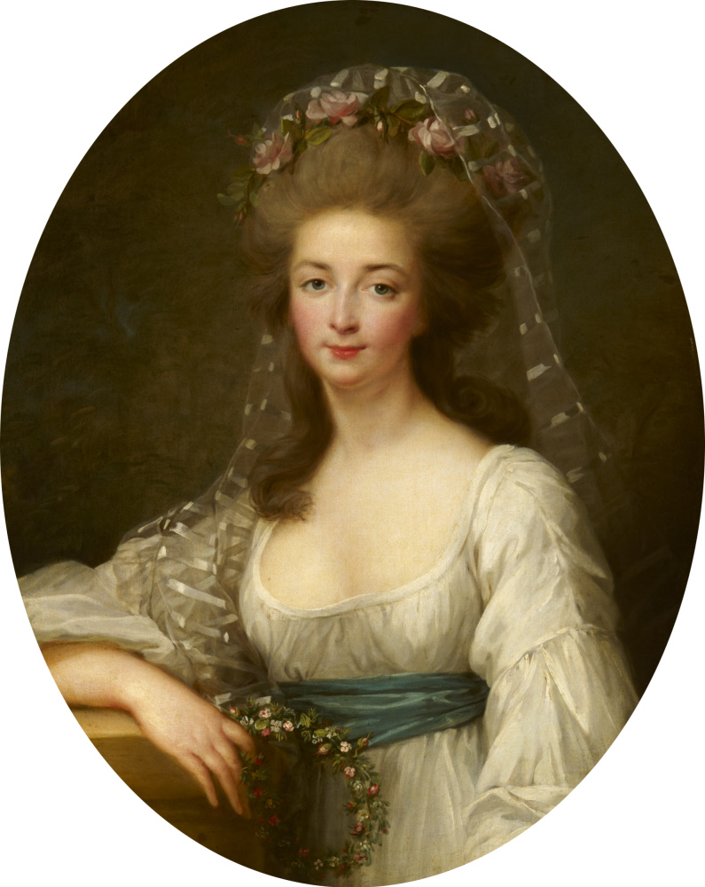 Princess Élisabeth of France (1764-1794)